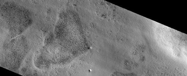 Philips Crater Area, as seen by hirise. Location is 67.1 degree south latitude and 301.1 degree east longitude. Image was taken by the Mars Reconnaissance Orbiter's HiRISE. The HiRISE camera was built by Ball Aerospace and Technology Corporation and is operated by the University of Arizona. Image courtesy NASA/JPL/University of Arizona.